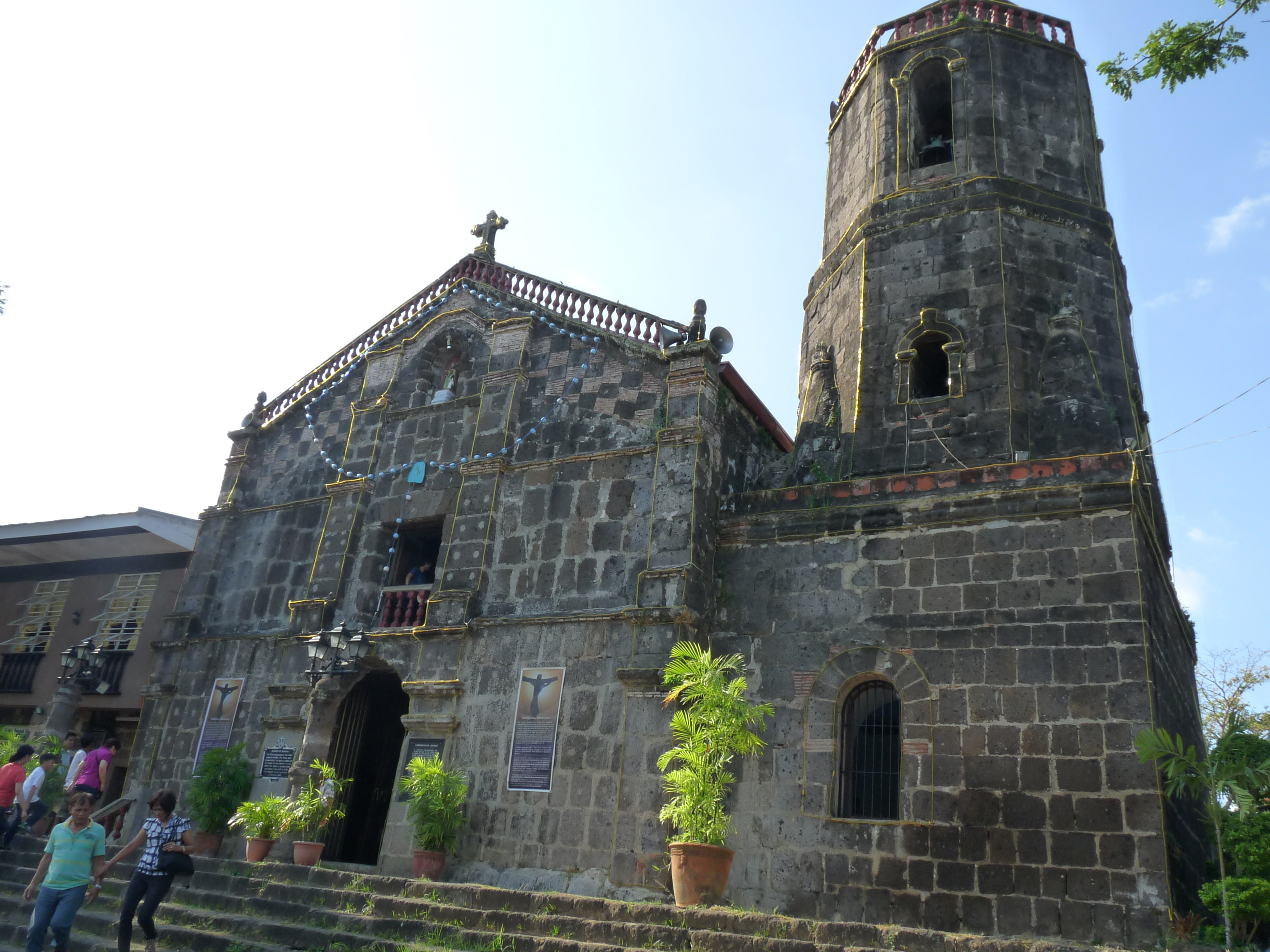 Baras Church facade